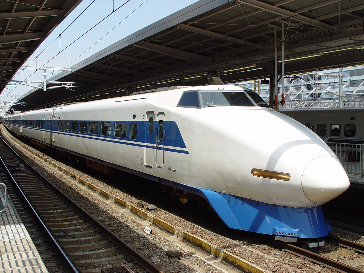 JR West 100 series shinkansen set G1 at Nagoya Station on the Kodama 464 service